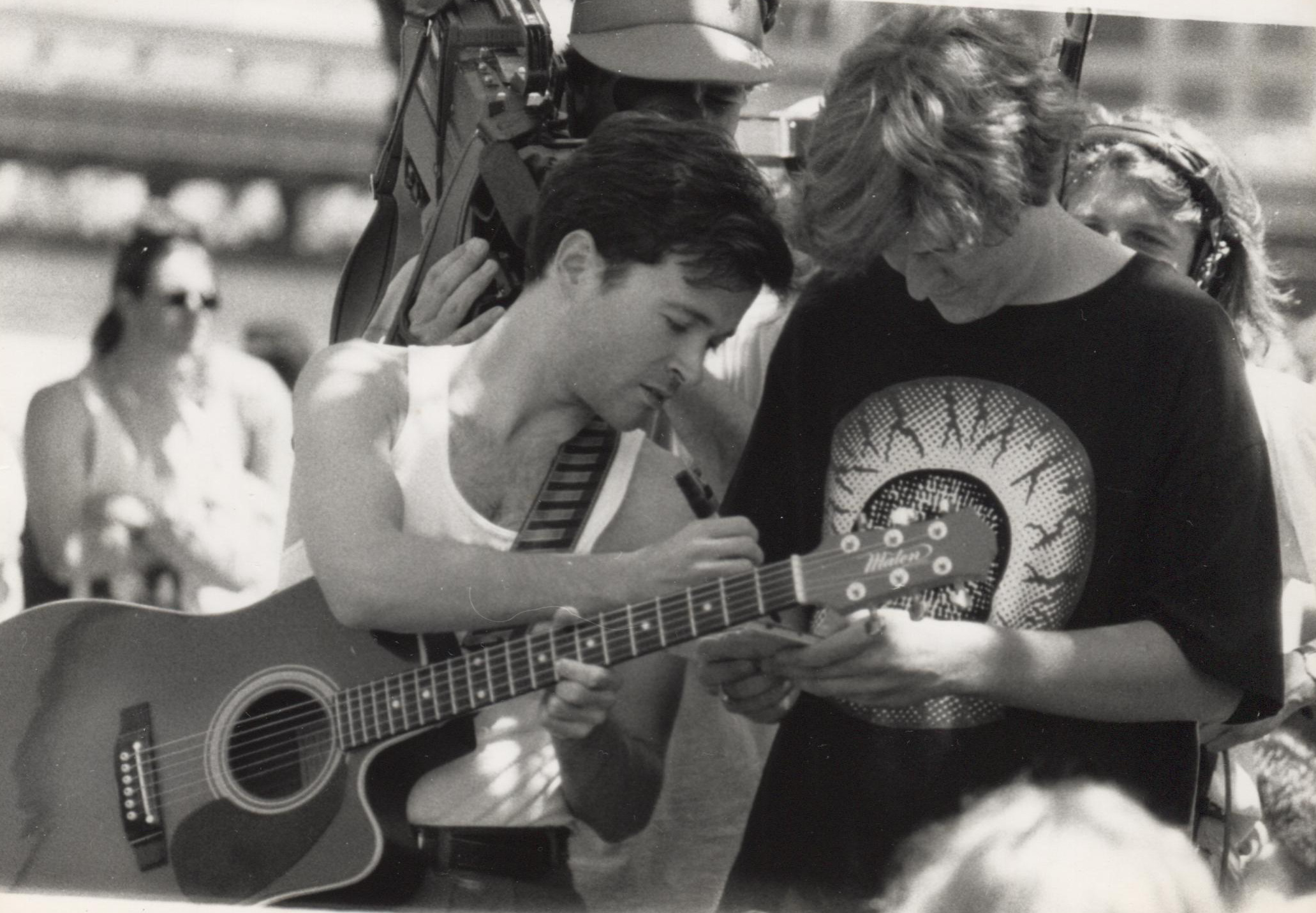 Gordon Gano signing an autograph for a fan, Sydney 1990